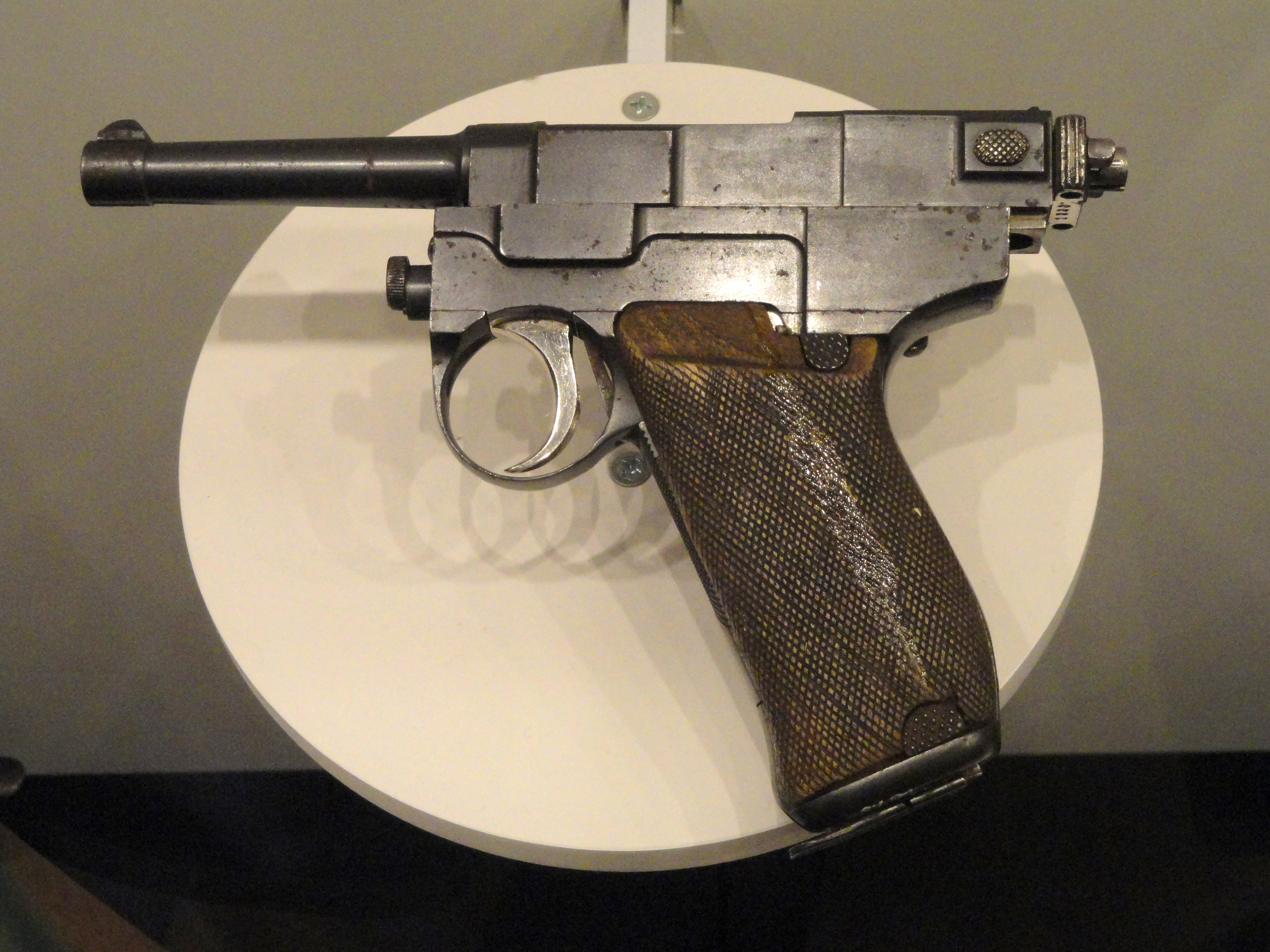 Handgun exhibited in the National World War I Museum at the Liberty Memorial, 100 W. 26th Street, Kansas City, Missouri, USA.